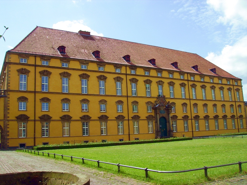 Inner courtyard of the Osnabrück Castle